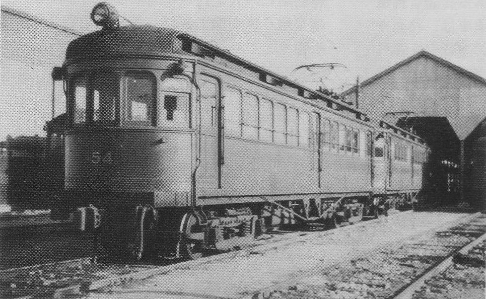 Hankyu #54.